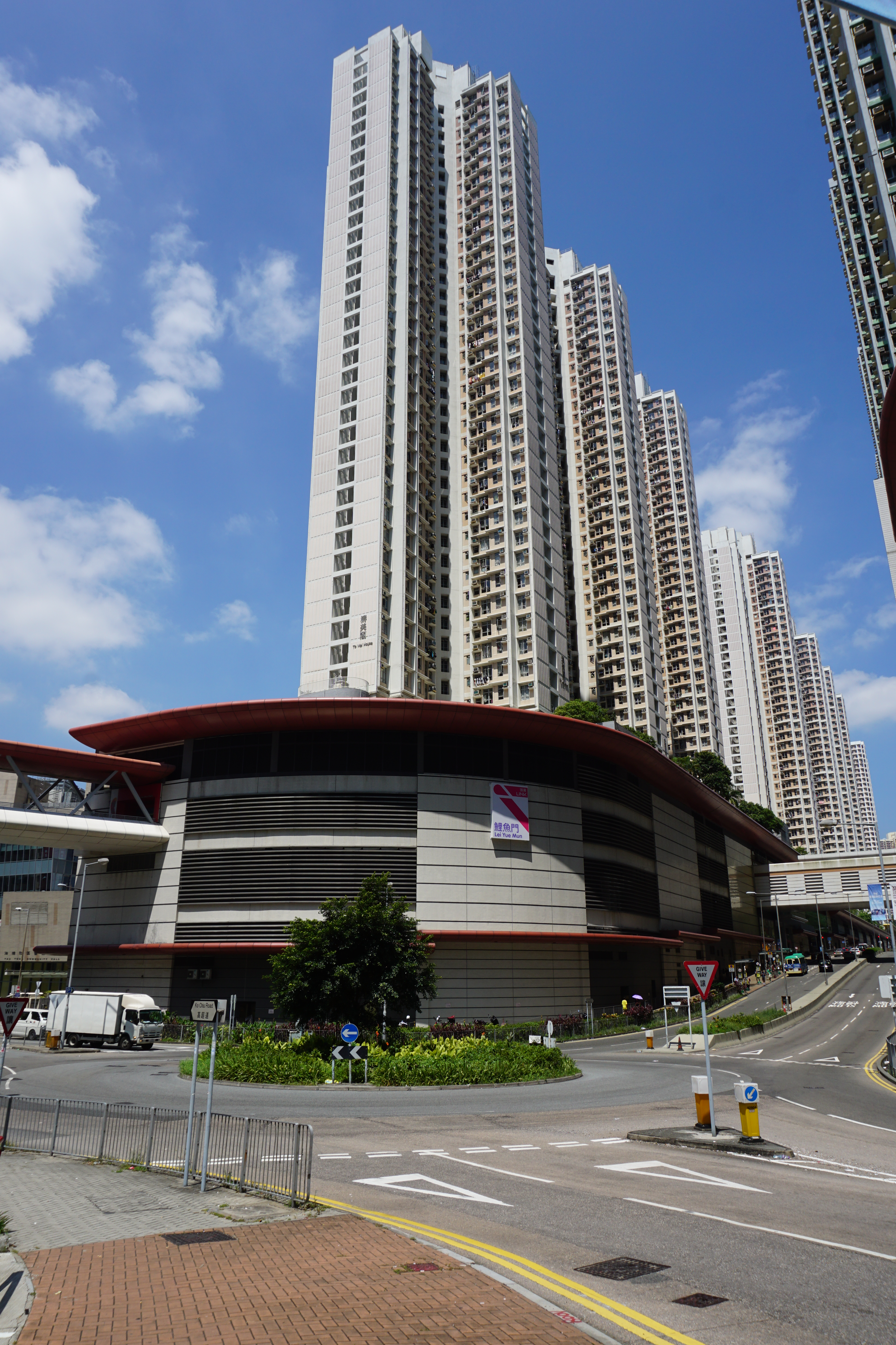 Yau Mei Court in Yau Tong, Hong Kong.